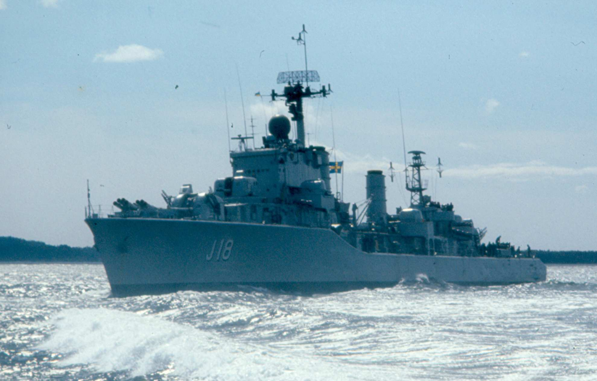 Picture of the Swedish destroyer HMS Halland (J18) summer of 1980